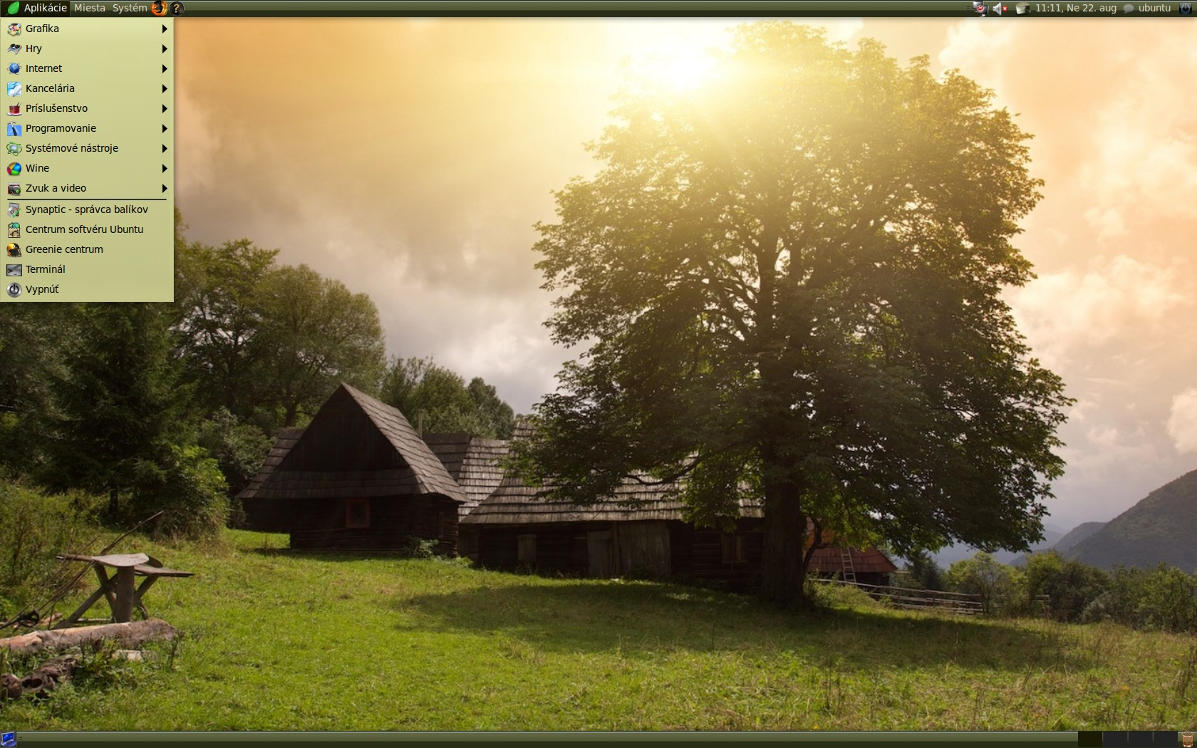 Screenshot of linux distribution Greenie, version 7.1L. Wallpaper was created by d15.sk